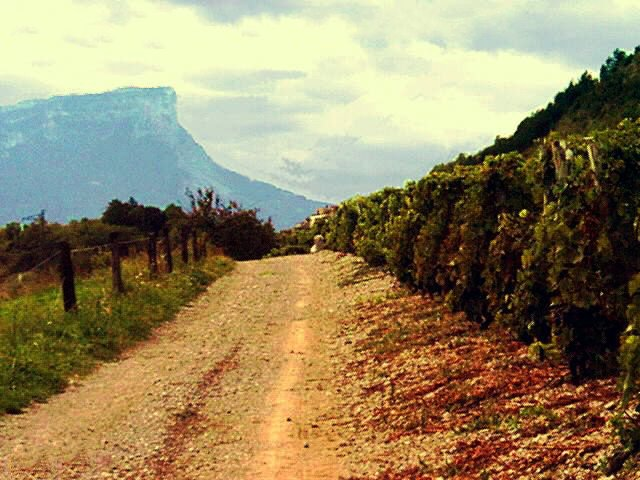 ARBIN, in Savoy (France) the vineyard, to the bottom the Granier mount.